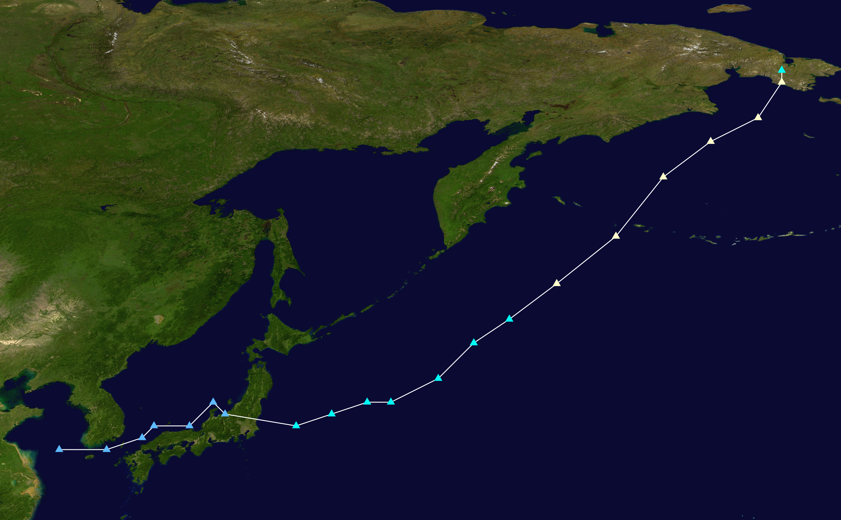 Track map of the 2011 Bering Sea superstorm. The points show the location of the storm at 6-hour intervals. The color represents the storm's maximum sustained wind speeds as classified in the Saffir-Simpson Hurricane Scale (see below), and the shape of the data points represent the nature of the storm, according to the legend below. Saffir–Simpson scale Tropical depression≤38 mph≤62 km/h Category 3111–129 mph178–208 km/h Tropical storm39–73 mph63–118 km/h Category 4130–156 mph209–251 km/h Category 174–95 mph119–153 km/h Category 5≥157 mph≥252 km/h Category 296–110 mph154–177 km/h Unknown Storm typeTropical cycloneSubtropical cycloneExtratropical cyclone / Remnant low / Tropical disturbance